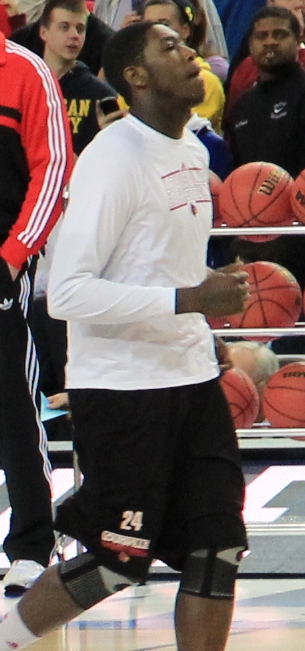 Montrezl Harrell at Final Four practice, 2013